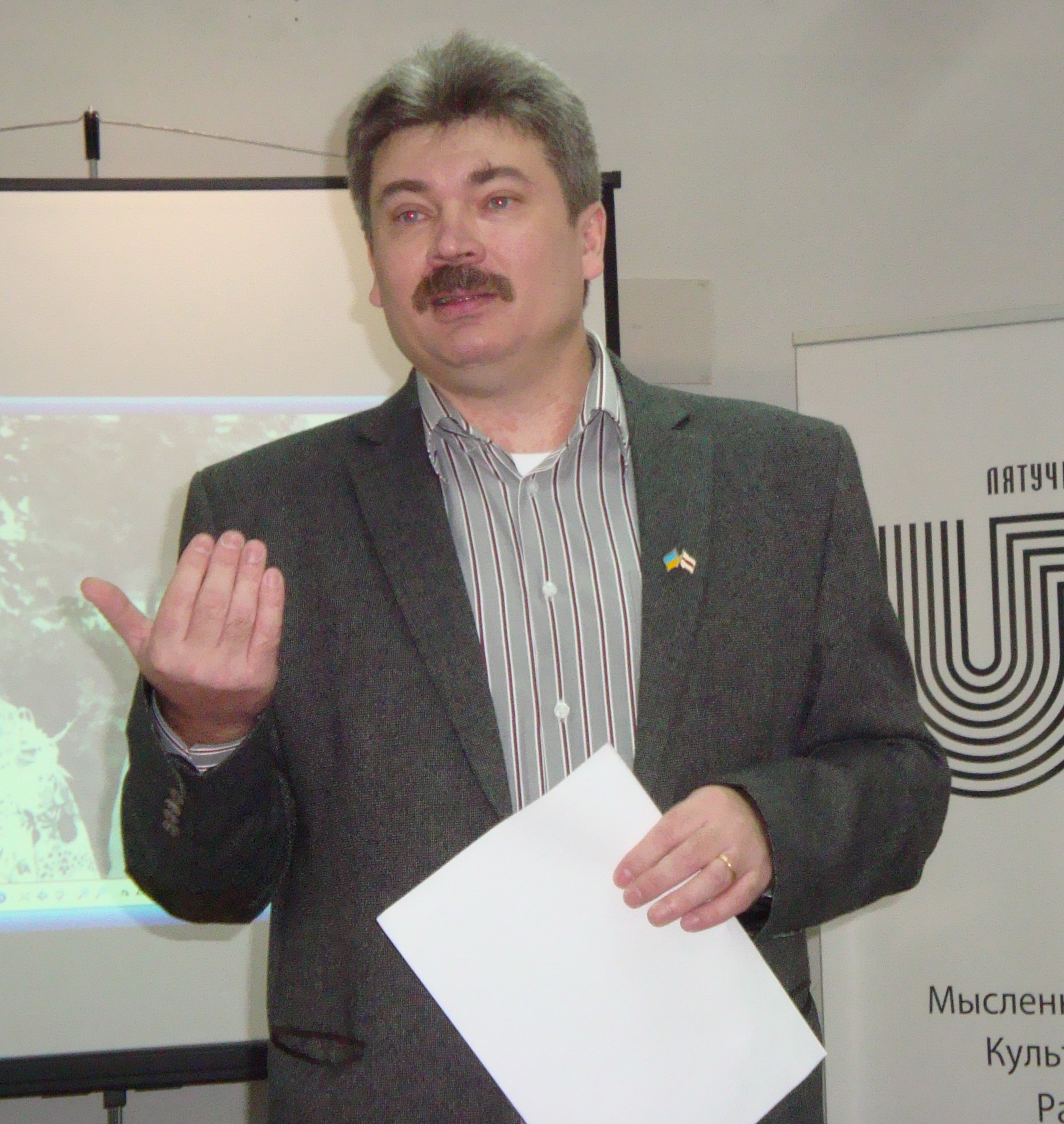 Mihas Skobla (born 1966 AD) - a belorussian poet and writer, during his lecture about Ryhor Baradulin (1935-2014)